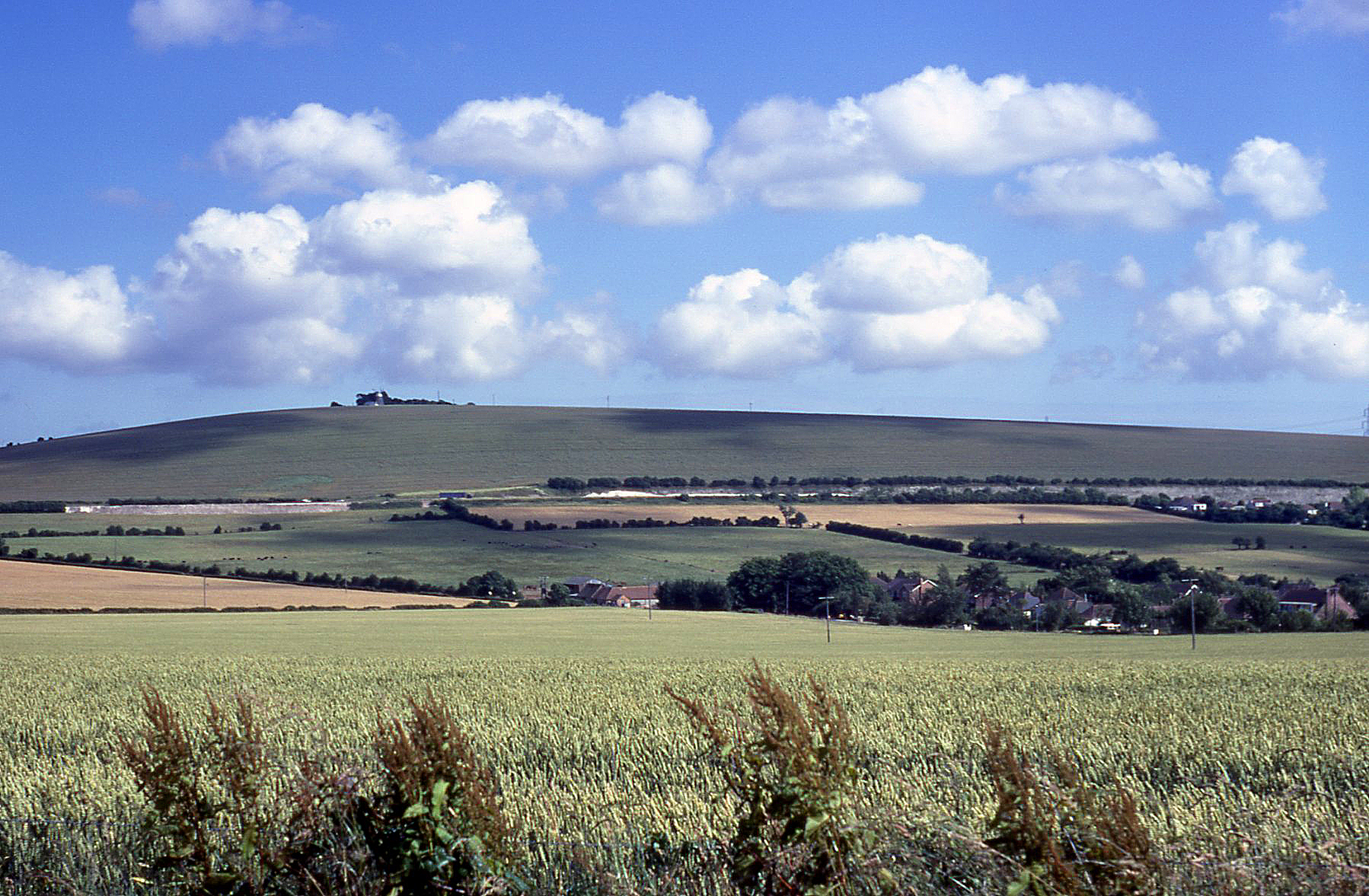 Windmill Hill This is the view looking towards Chalton Windmill from near the village of Clanfield.